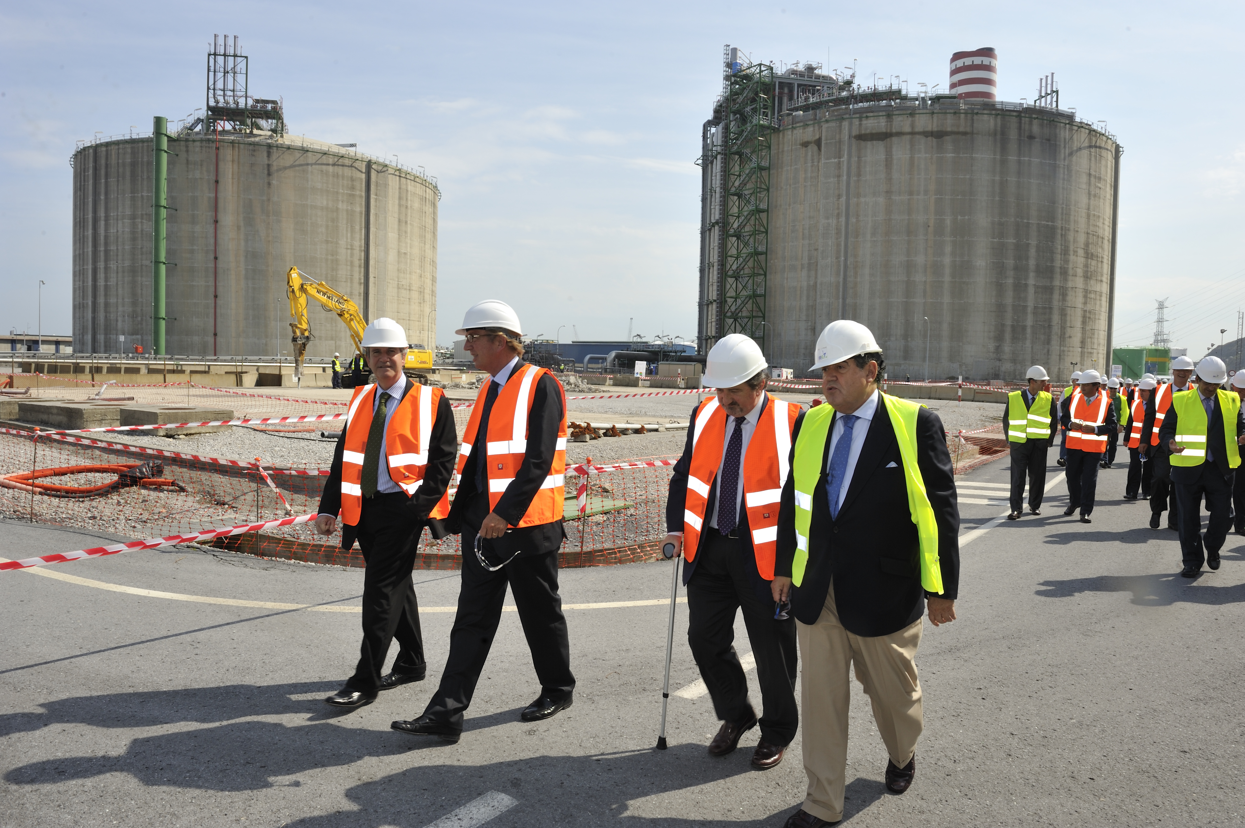 GNL Bahía de Bizkaia Gas